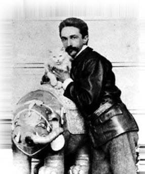 Robert de Montesquiou, French Symbolist poet